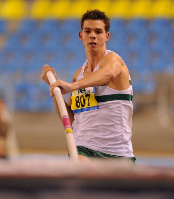 Eelco Sintnicolaas Dutch Indoorchampionships Heptatlon 2008